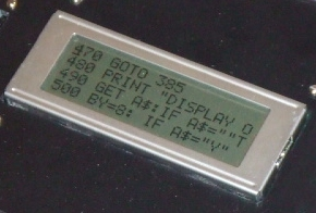 a 20x4 character LCD placed inside a plastic box.